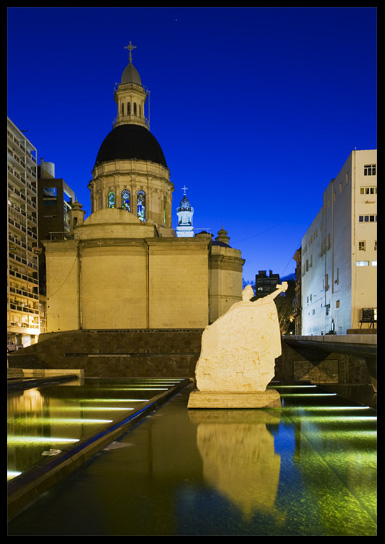 Basilica Cathedral of Our Lady of the Rosary, taken from the Flag Memorial plaza